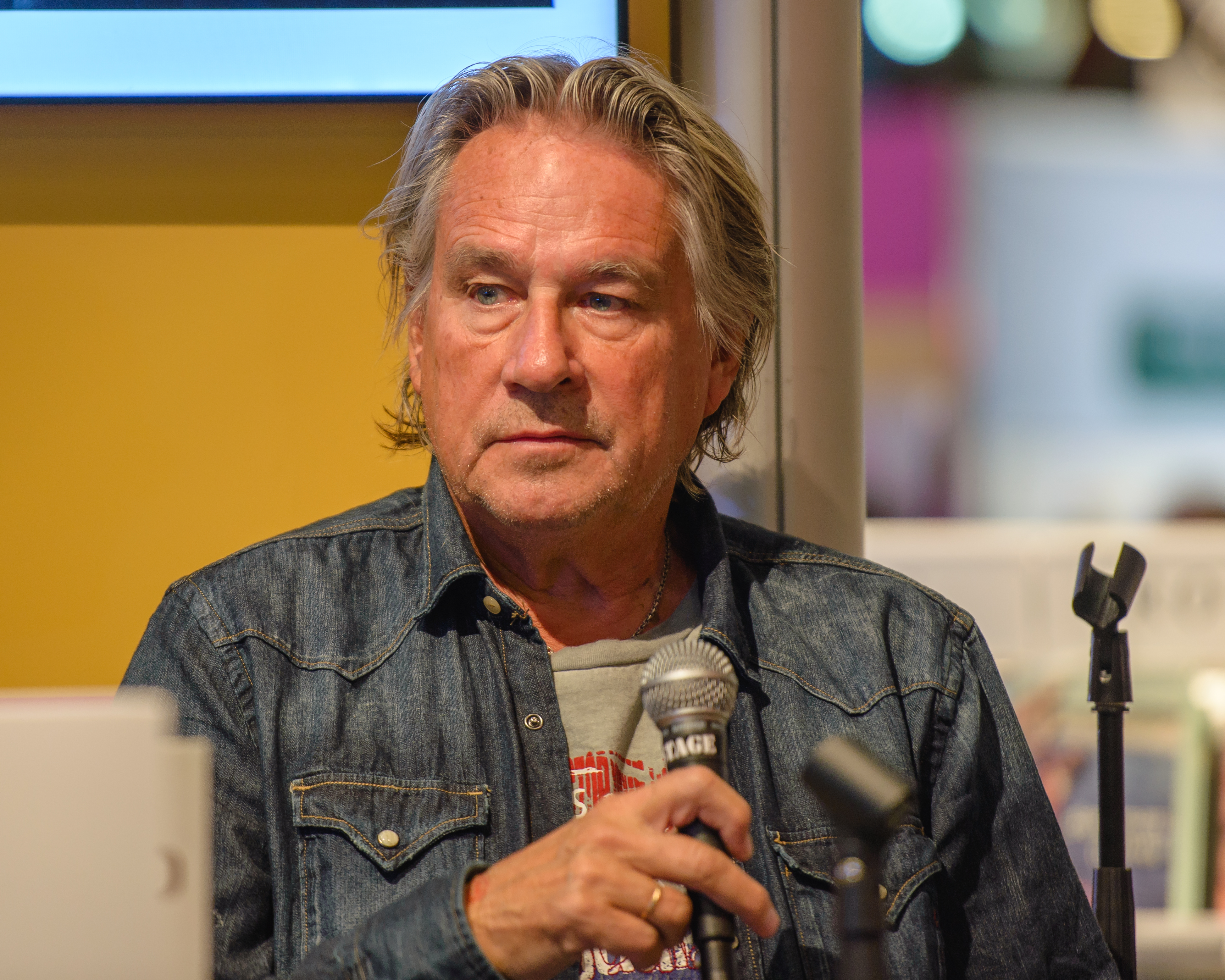 Rolf Börjlind at Göteborg Book Fair 2014.